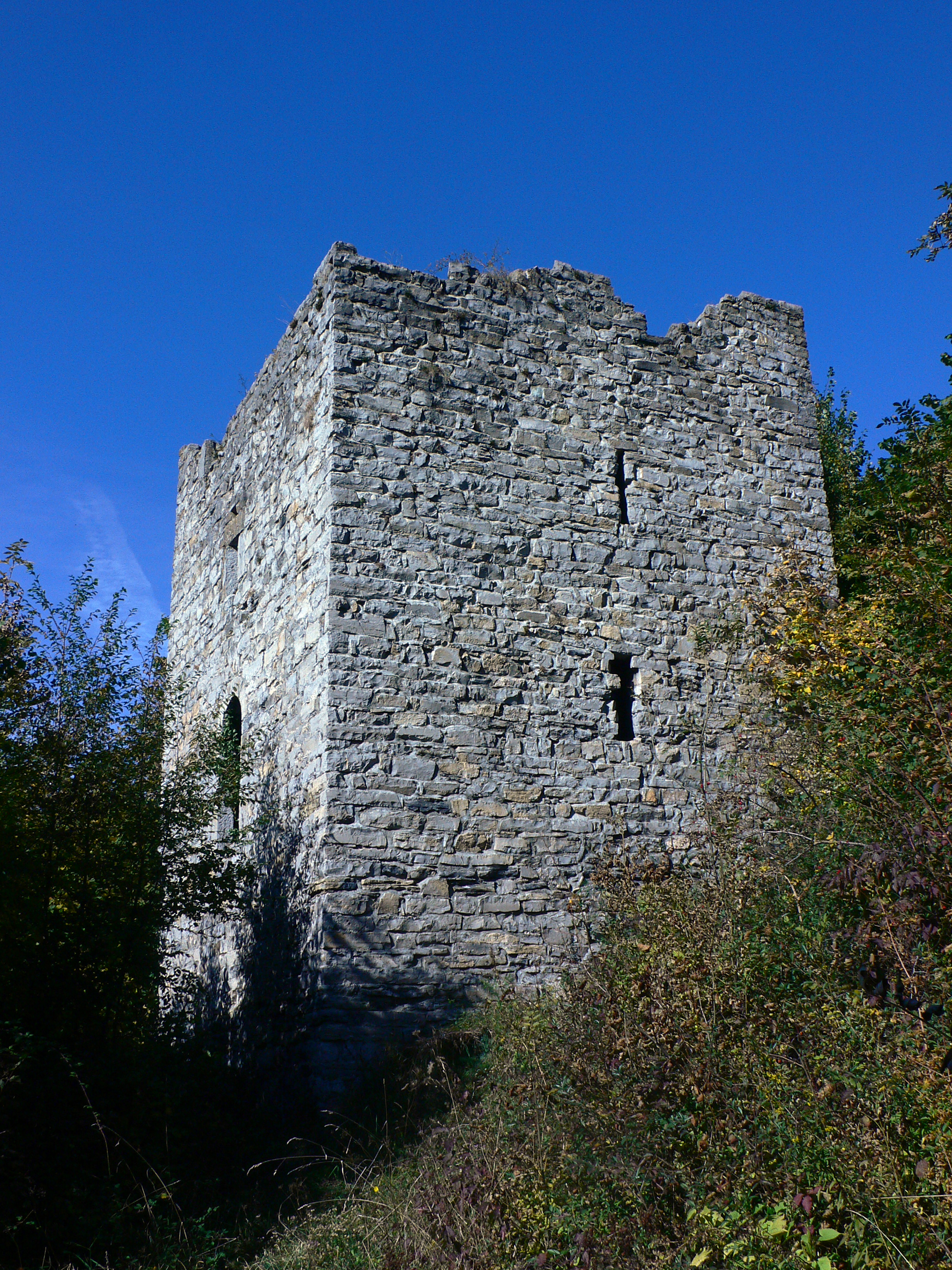 Image of Esino Lario and Grigna. Courtesy Archivio Pietro Pensa, photo by Carlo Maria Pensa.